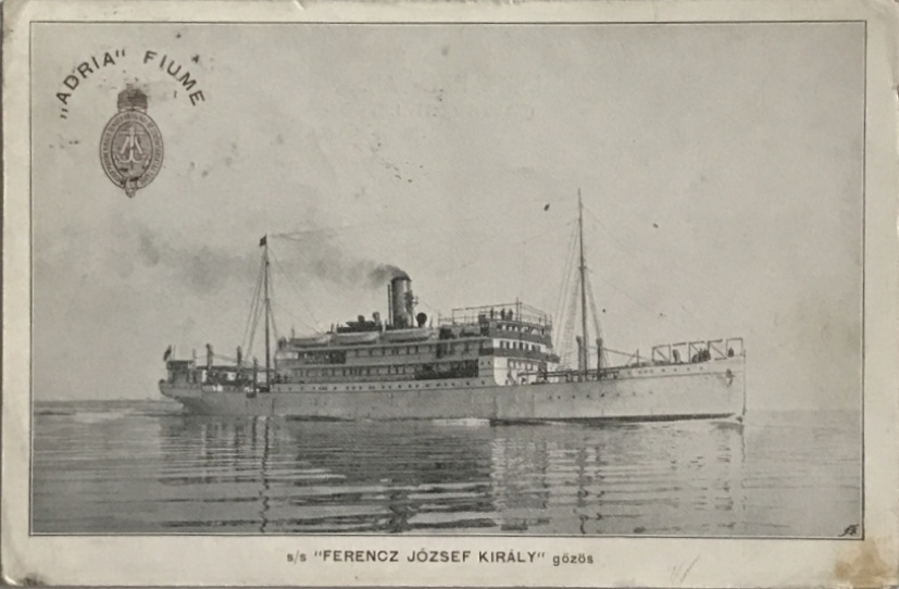 The picture shows an official postcard of the steamship "Ferencz József Király", built 1913 in Scotland and in service in the Adria ship company (Fiume), with the company's signet